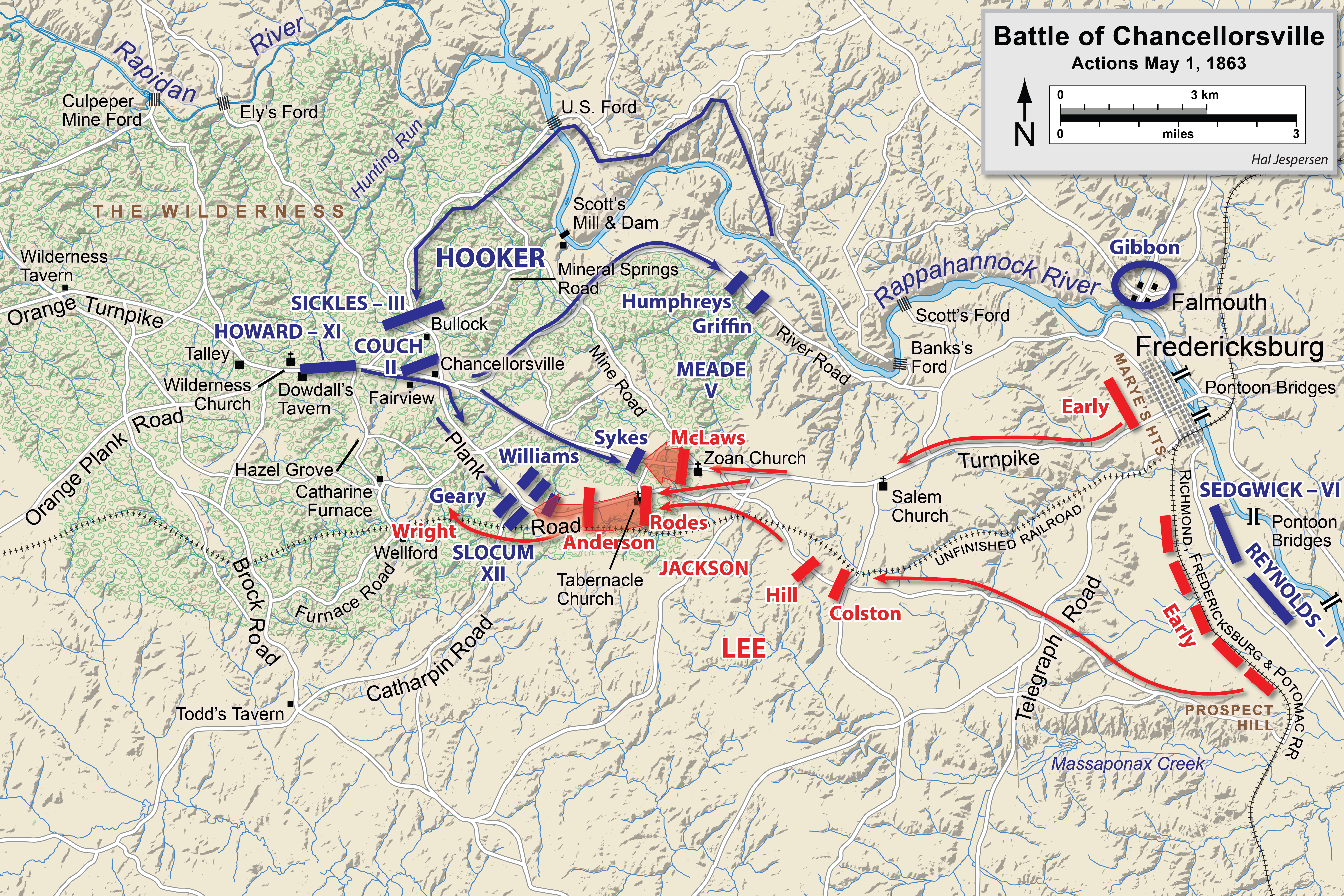 Map of a portion (May 1) of the battle of Chancellorsville of the American Civil War. This map partially replaces the map entitled Chancellorsville May1 2.png. Drawn in Adobe Illustrator CS6 by Hal Jespersen. Graphic source file is available at Attribution: Map by Hal Jespersen